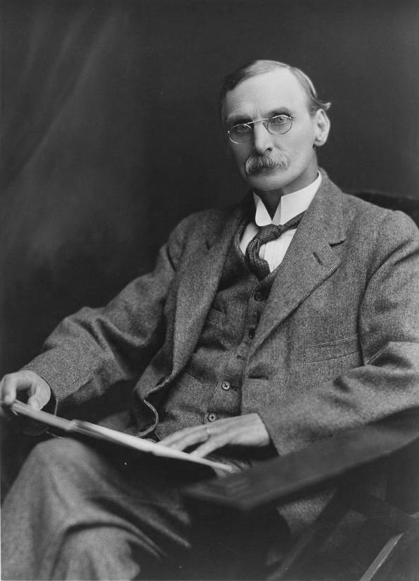 Councillor Jonathan Trevethick